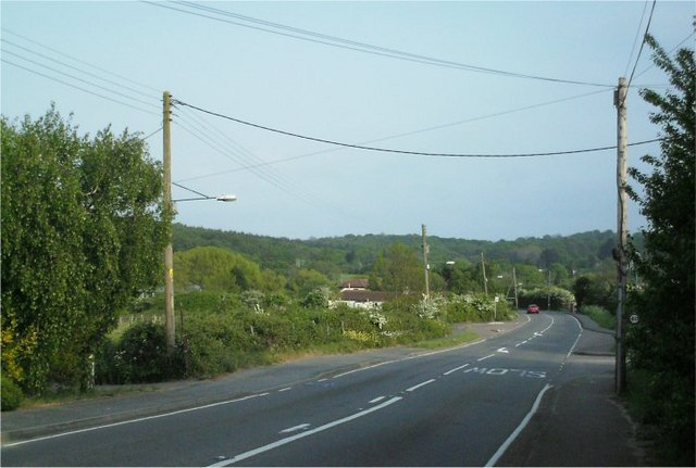 Pean Hill A290 looking S towards Blean and Canterbury. Honey Hill is in the distance.